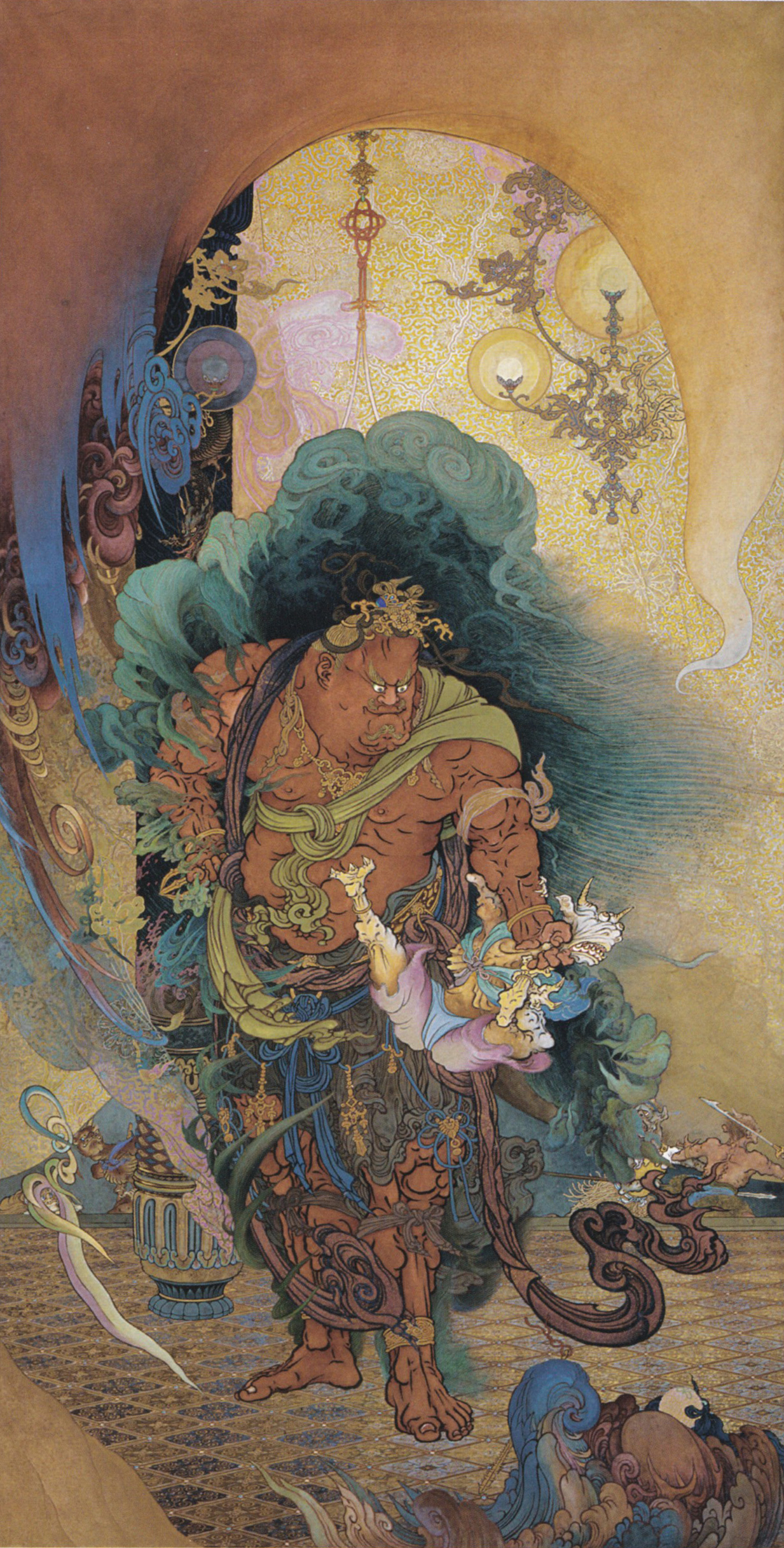 Temple god